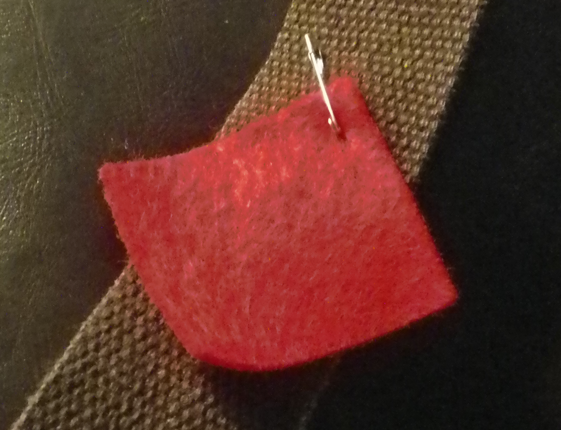 Red square, symbol of the 2005 and 2012 Quebec students' strike.